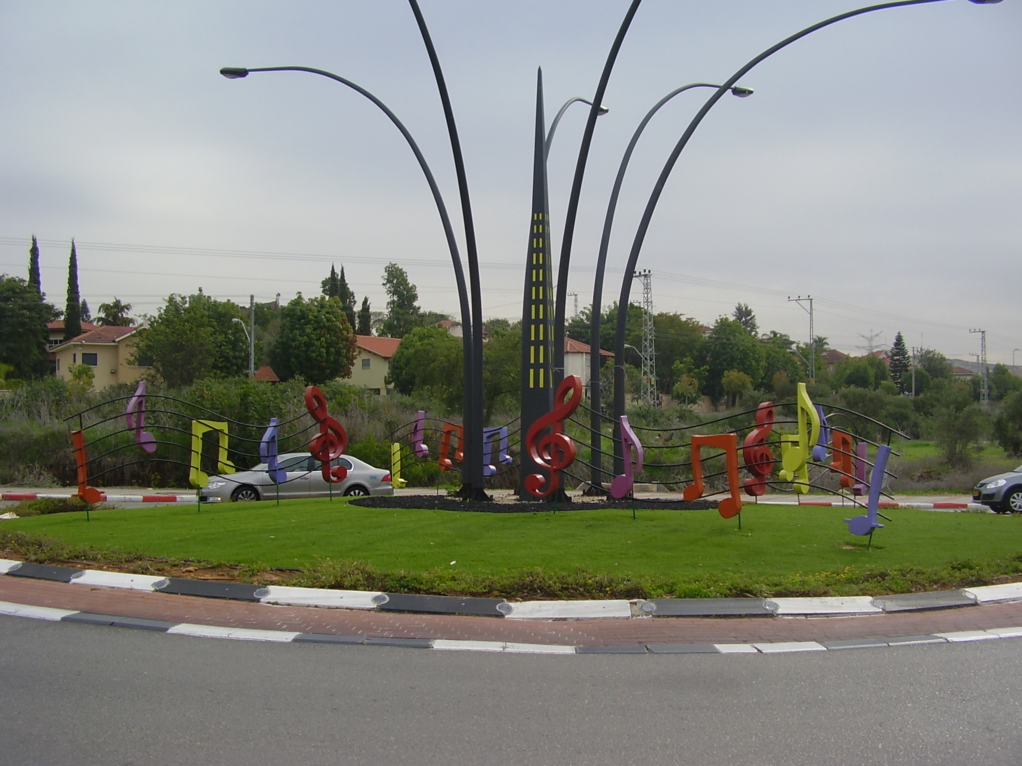 Rosh Ha'ayin music town - Notes Square